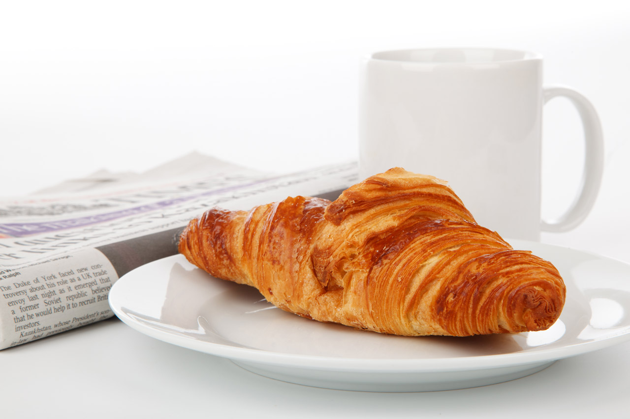 A croissant for breakfast, with newspaper